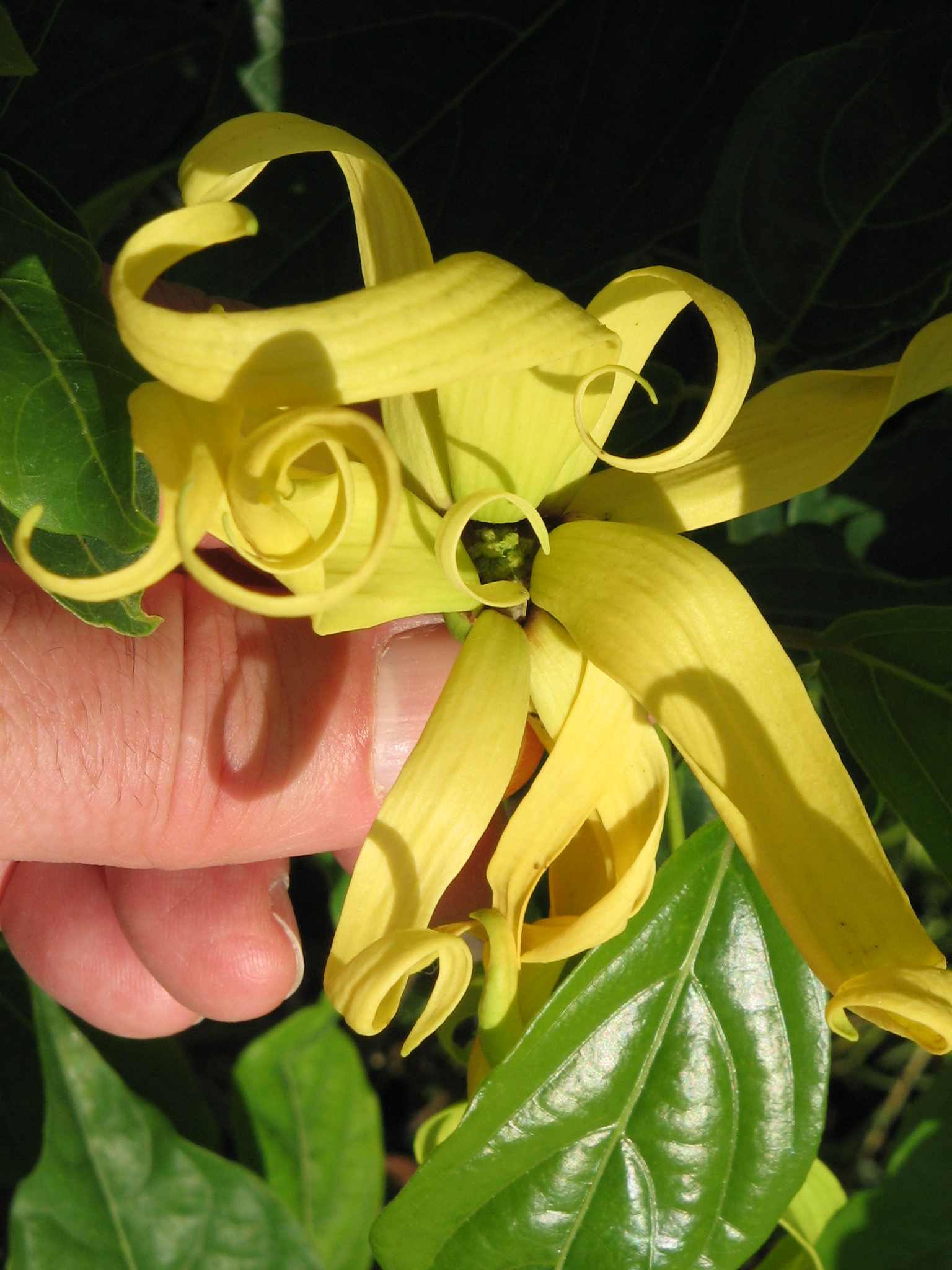 Cananga odorata close-up